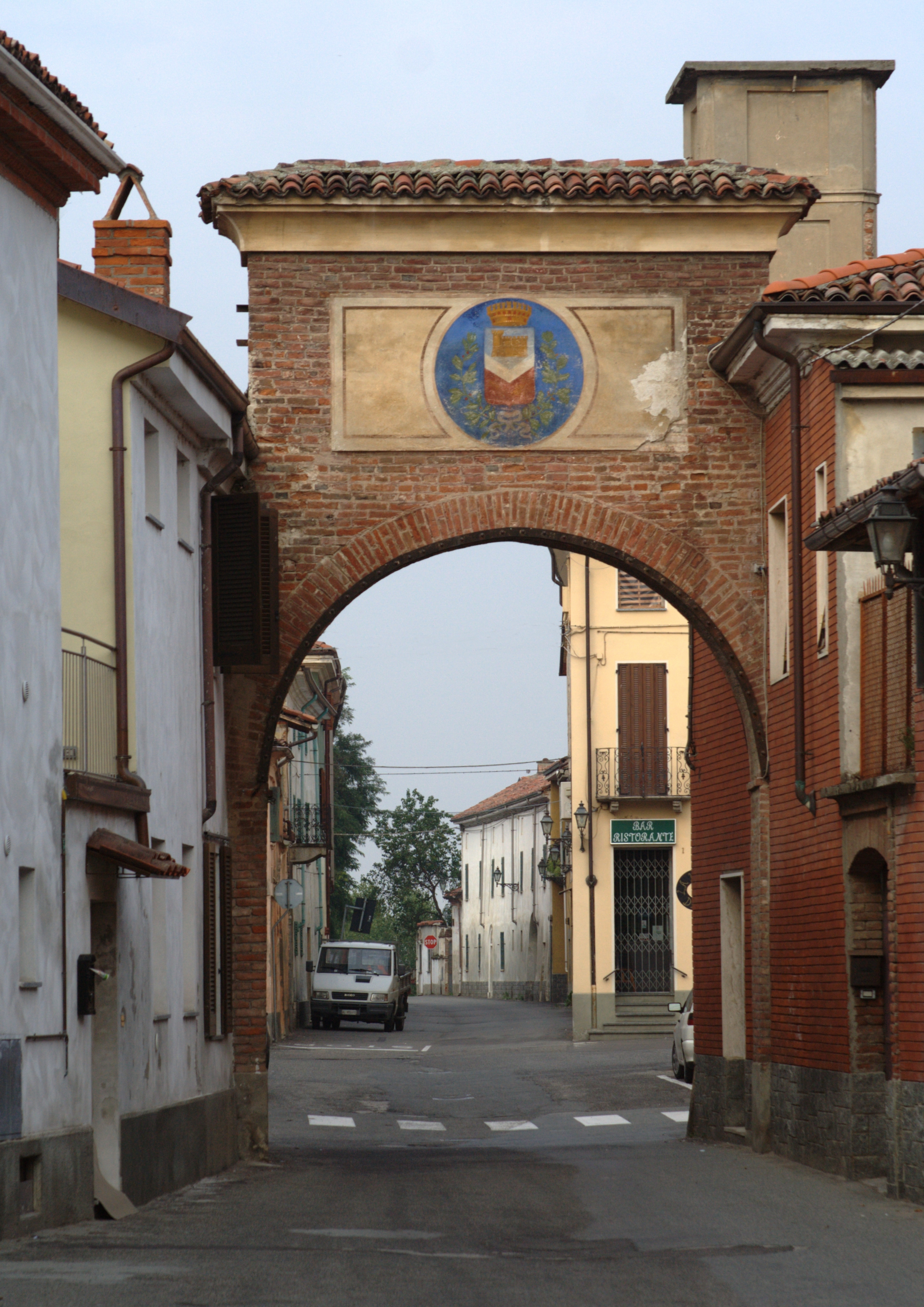 Door of income of the Bassignana village